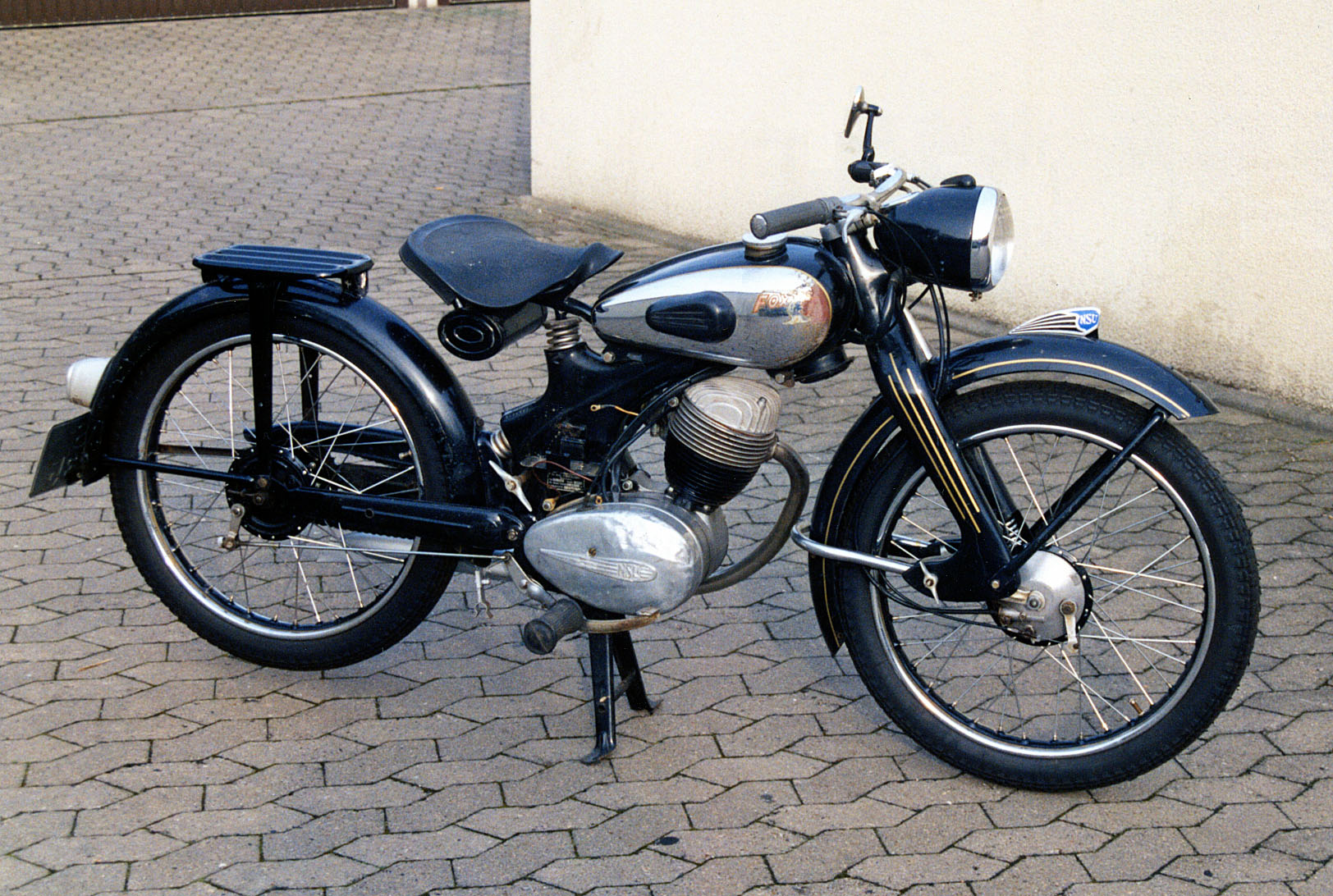 NSU 101 OSB Fourstroke FOX 1954. Export version with chrome plated rims and other chrome plated parts.